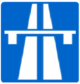 Sign of Freeways in Iran